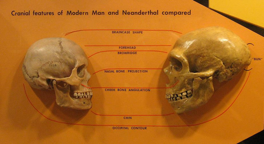 comparison of Neanderthal and Modern human skulls from the Cleveland Museum of Natural History